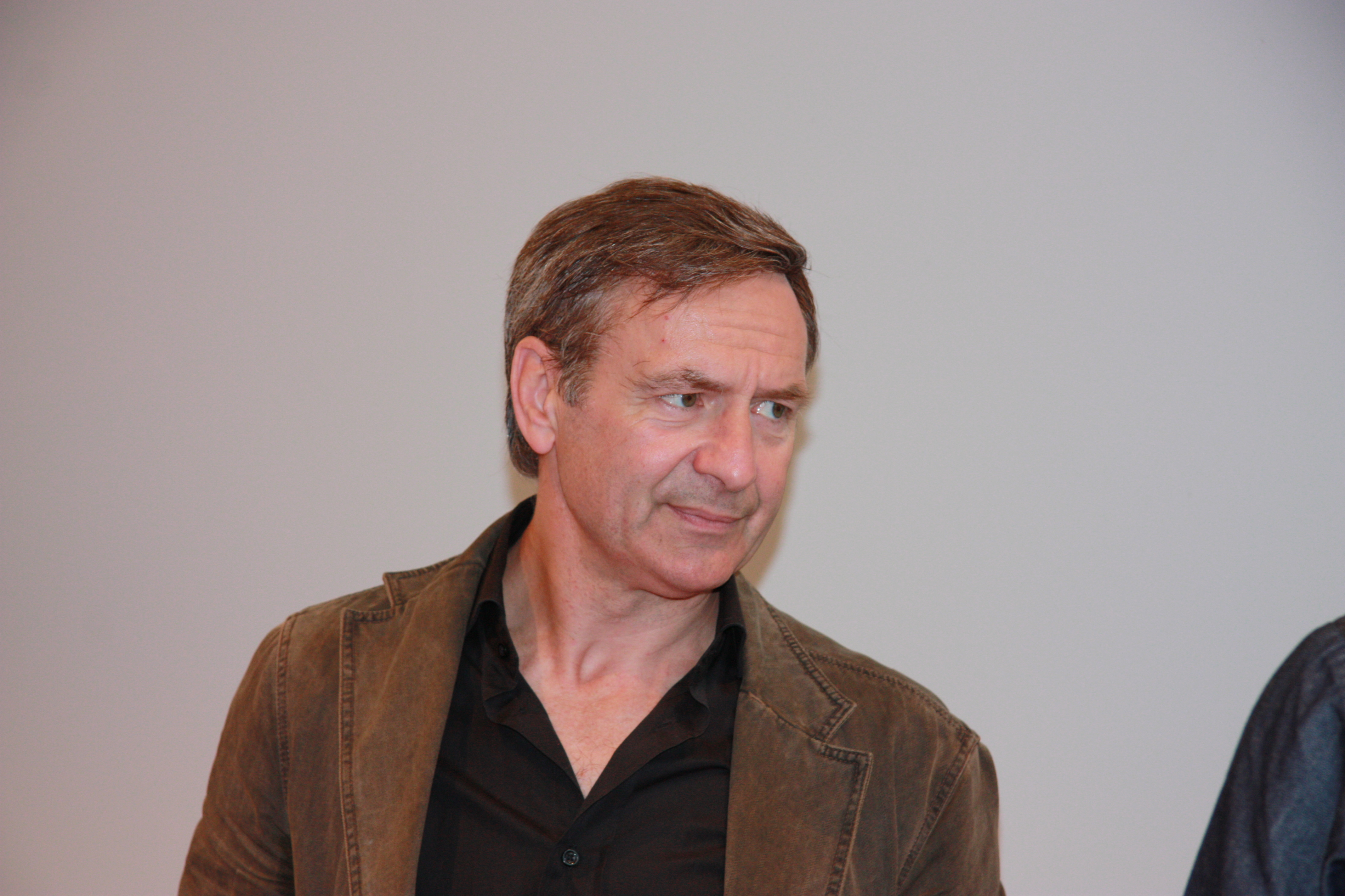 Conference with Alejandro Jodorowsky and François Boucq at Japan Expo 2008 (Paris, France)